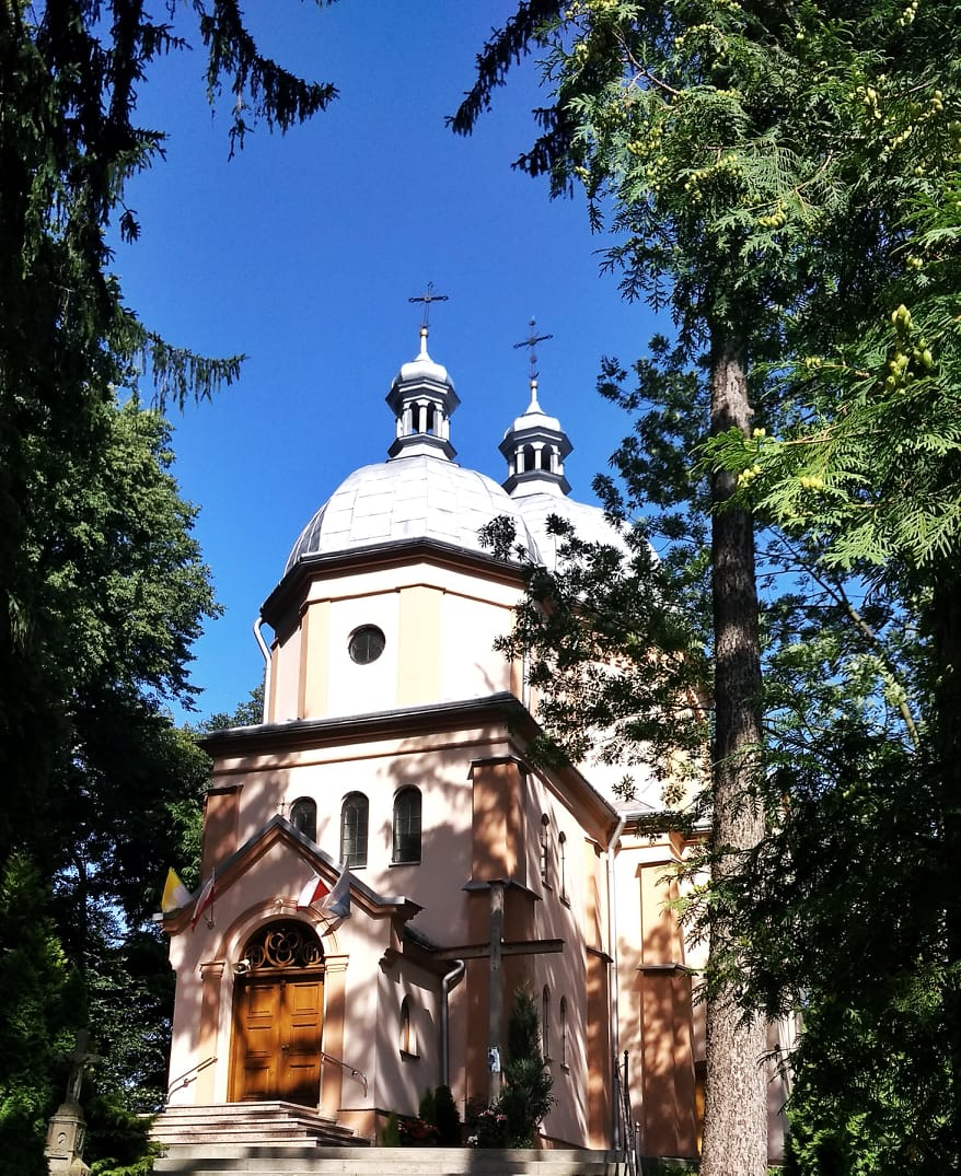 Former Greek Catholic church in Jaksmanice, Poland. The church was built in 1901